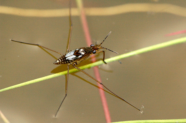 Picture taken in Commanster, Belgian High Ardennes . Species: Gerris gibbifer nymph